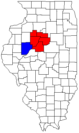 Map of Illinois highlighting the Peoria-Canton Combined Statistical Area; created with the GIMP; Made by User:Acntx.